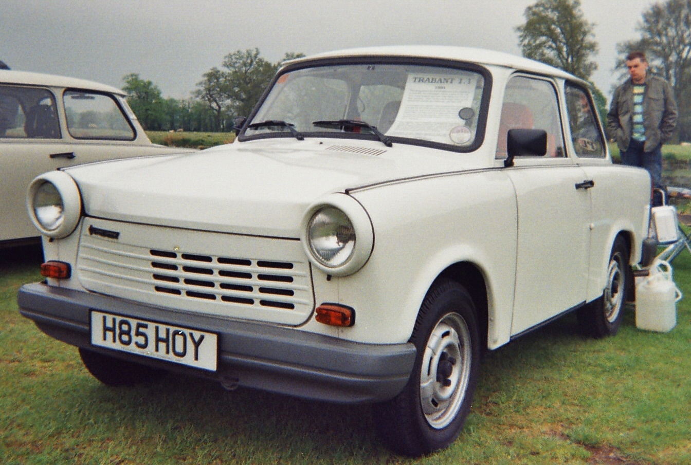 The short-lived Trabant 1.1 Limousine with VW Polo four-stroke engine